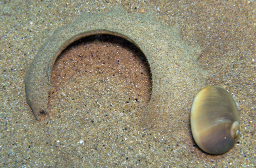 Sand collar from Neverita josephinia (Risso, 1826) and shell of that species on the right, Mediterranean Sea, Isola del Giglio, Italy.